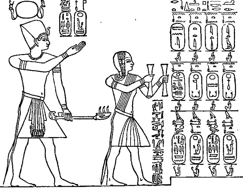 An illustration from the Encyclopaedia Biblica, a 1903 publication which is now in the public domain. Fig. 9 for article "Egypt". Image of part of the king list at Abydos, created during the reign of Seti I. Depicted are Seti I, and his son Ramesses II; the hairstyle of the son is a signifier of his princedom. The son holds censers, and he and his father are on the way to make offerings to Ptah-Seker-Osiris (an amalgam of Ptah, Seker, and Osiris), on behalf of his 72 ancestors - which are then listed in cartouches. On this image, the cartouches depict, from left to right: Top row - Menes, Teti, Djer, Djet Middle row - Merenre Nemtyemsaf II, Netjerkare, Menkare, Neferkare II Bottom row - Sety I (throne name), Sety I (praenomen), Sety I (throne name), Sety I (praenomen)